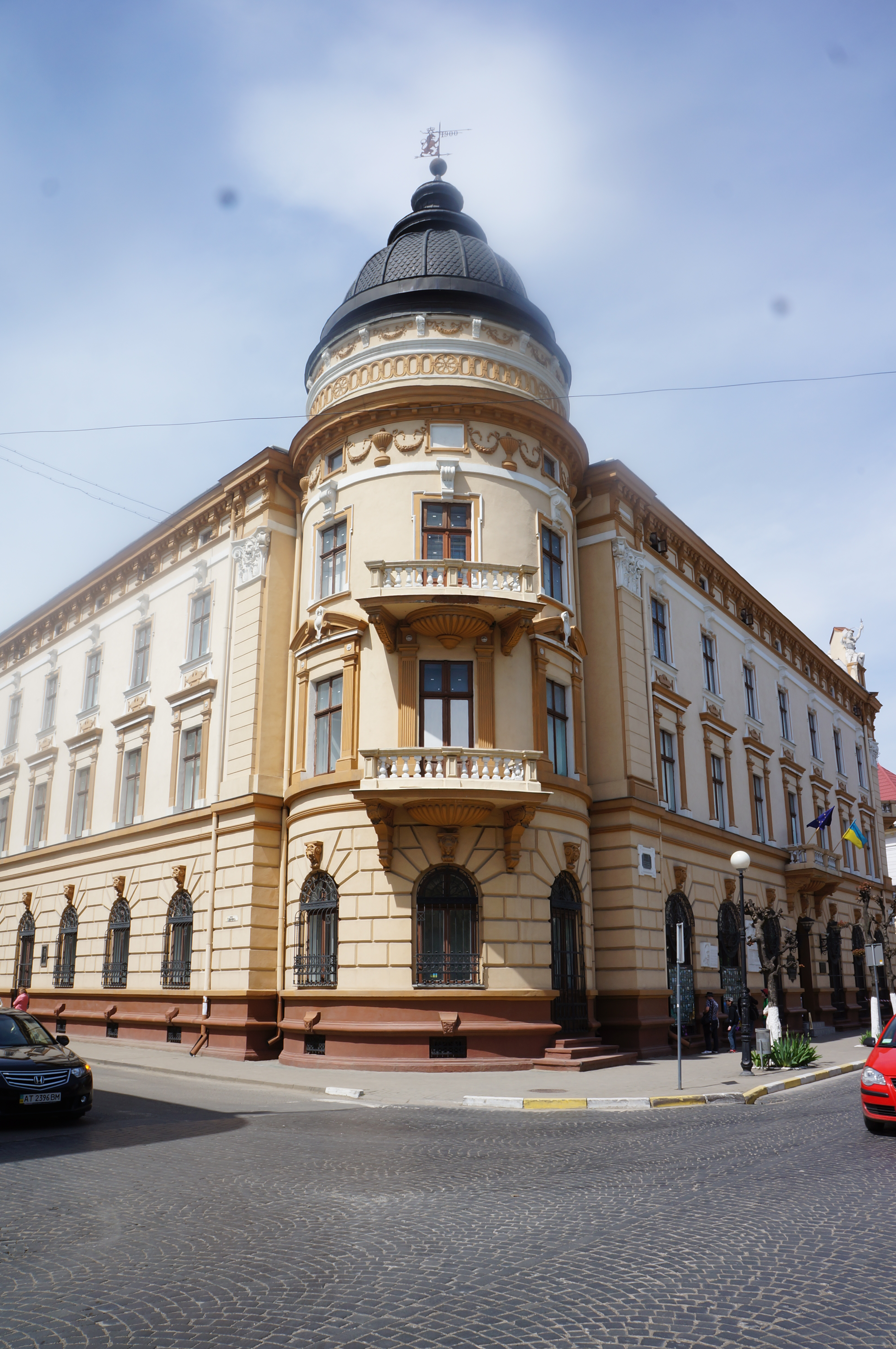 Old building in Kolomyja